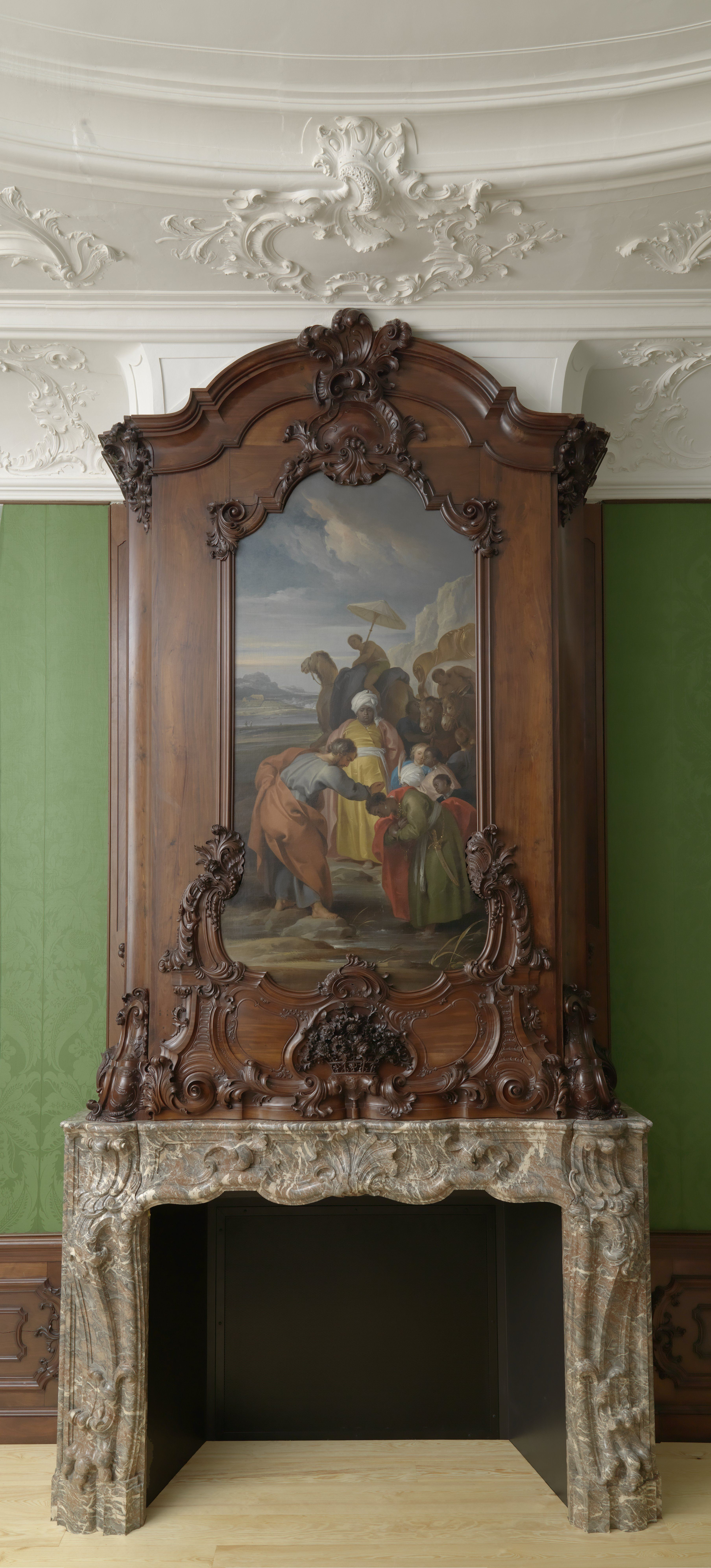 Saint Philip Baptizes the Eunuch, Jacob de Wit, 1748, oil on canvas, 215 by 108.5 cm, embedded in a chimney cover, mahogany and marble, 460 cm high